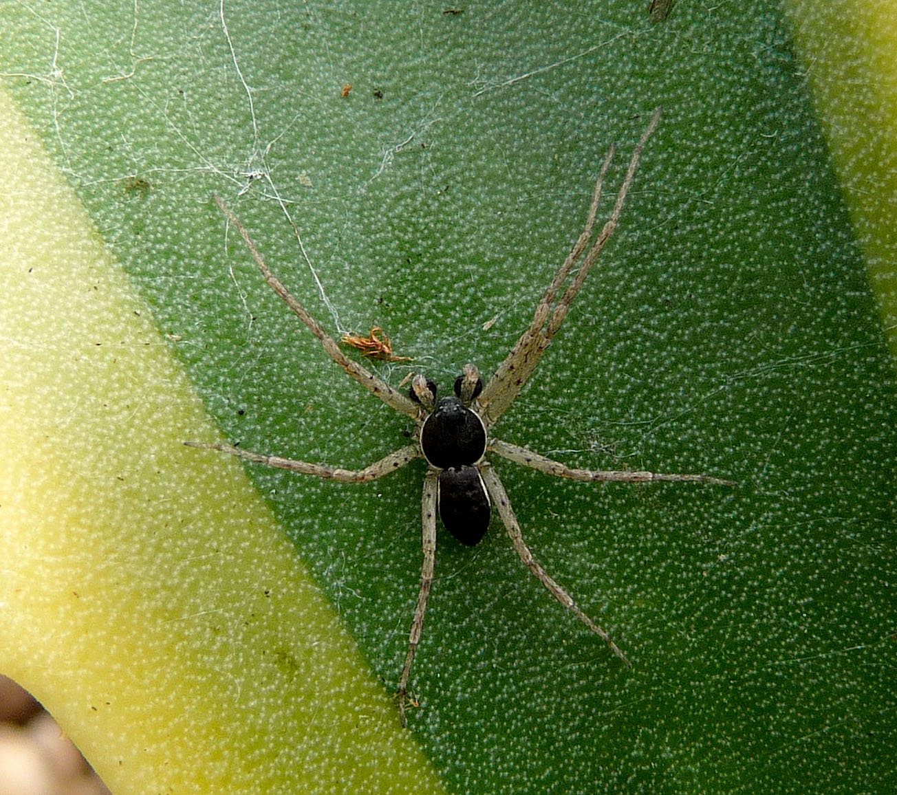 This is a very tiny spider.